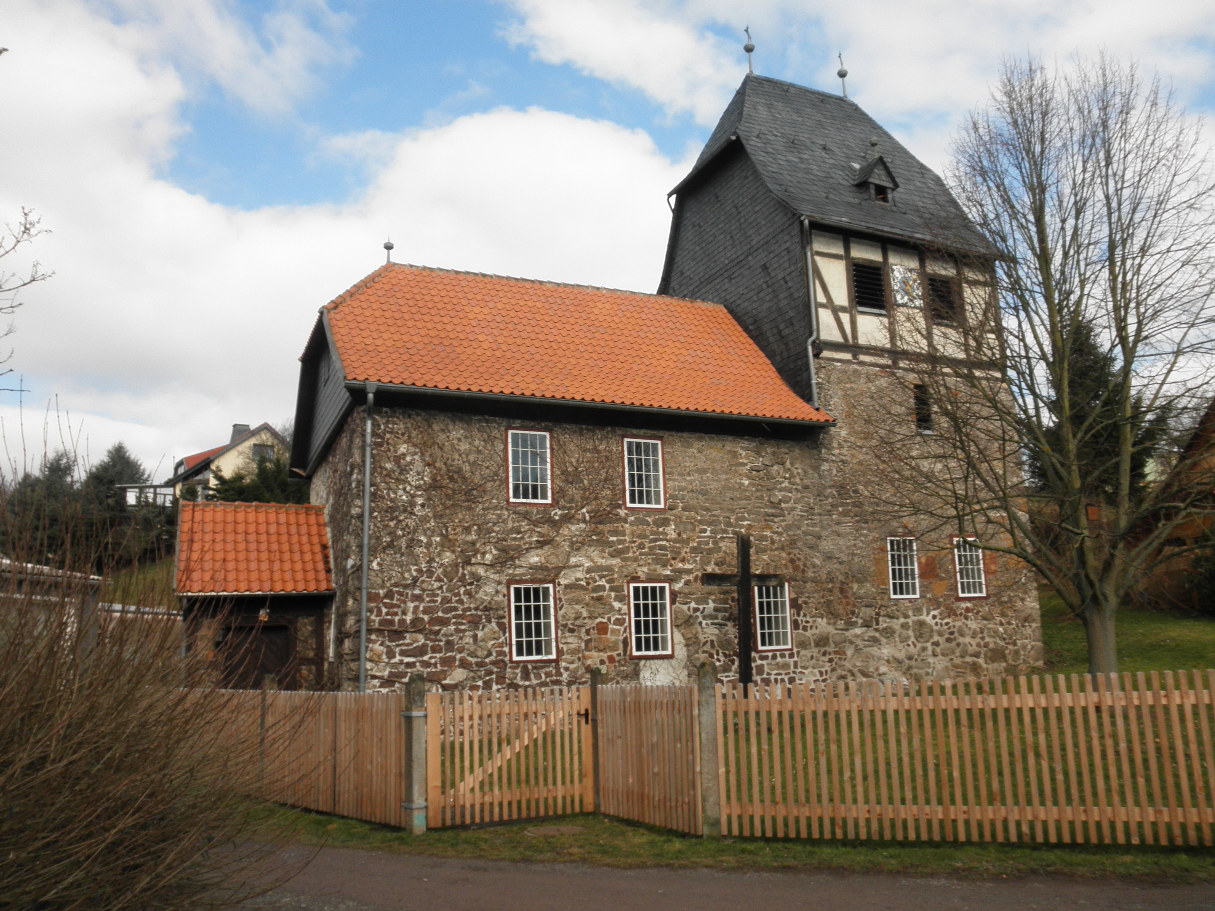 Church in Krimderode (Nordhausen) in Thuringia